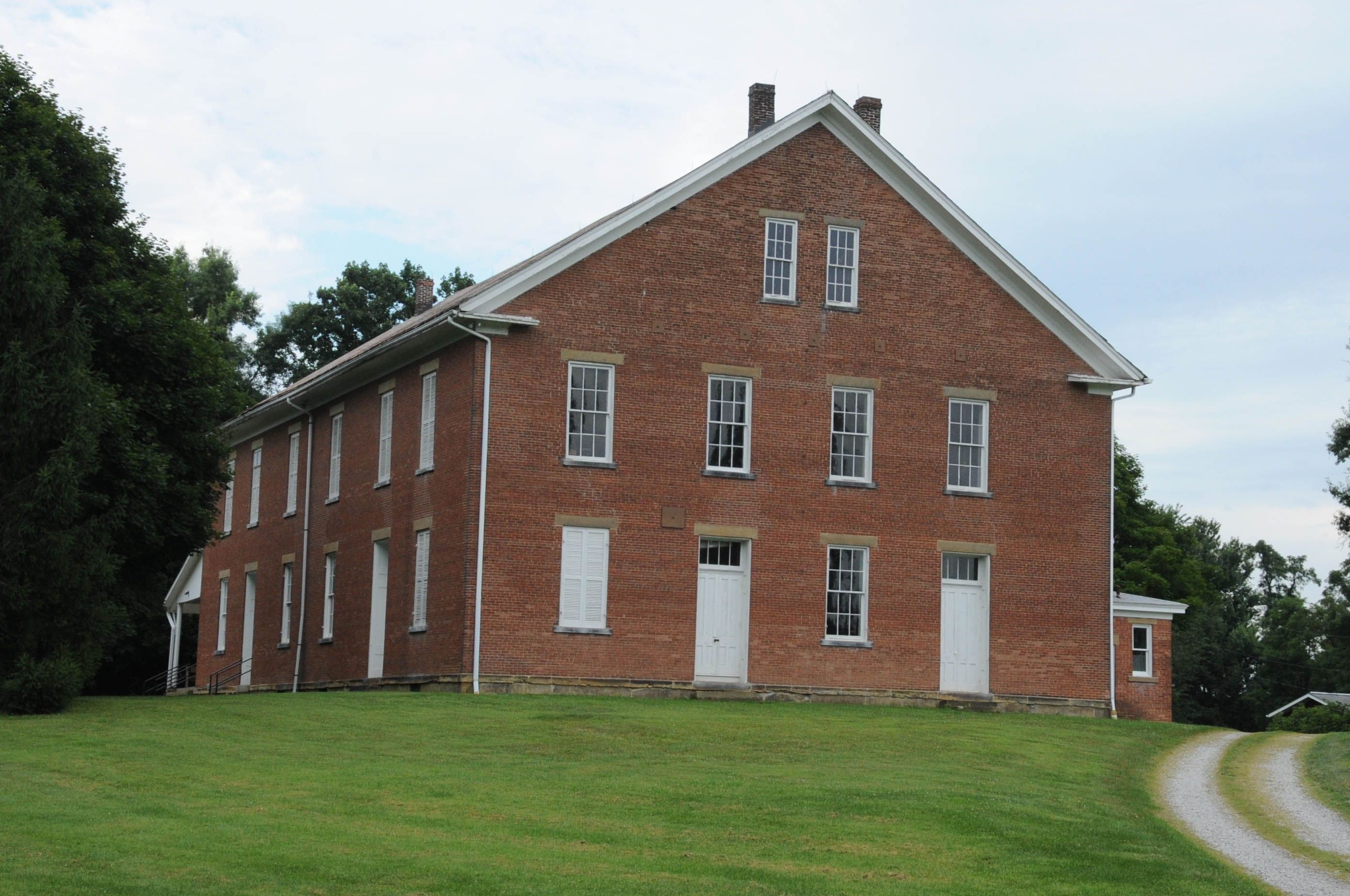 THIS IS THE ACTUAL MEETING HOUSE ITSELF LOCATED ON THE CAMPUS